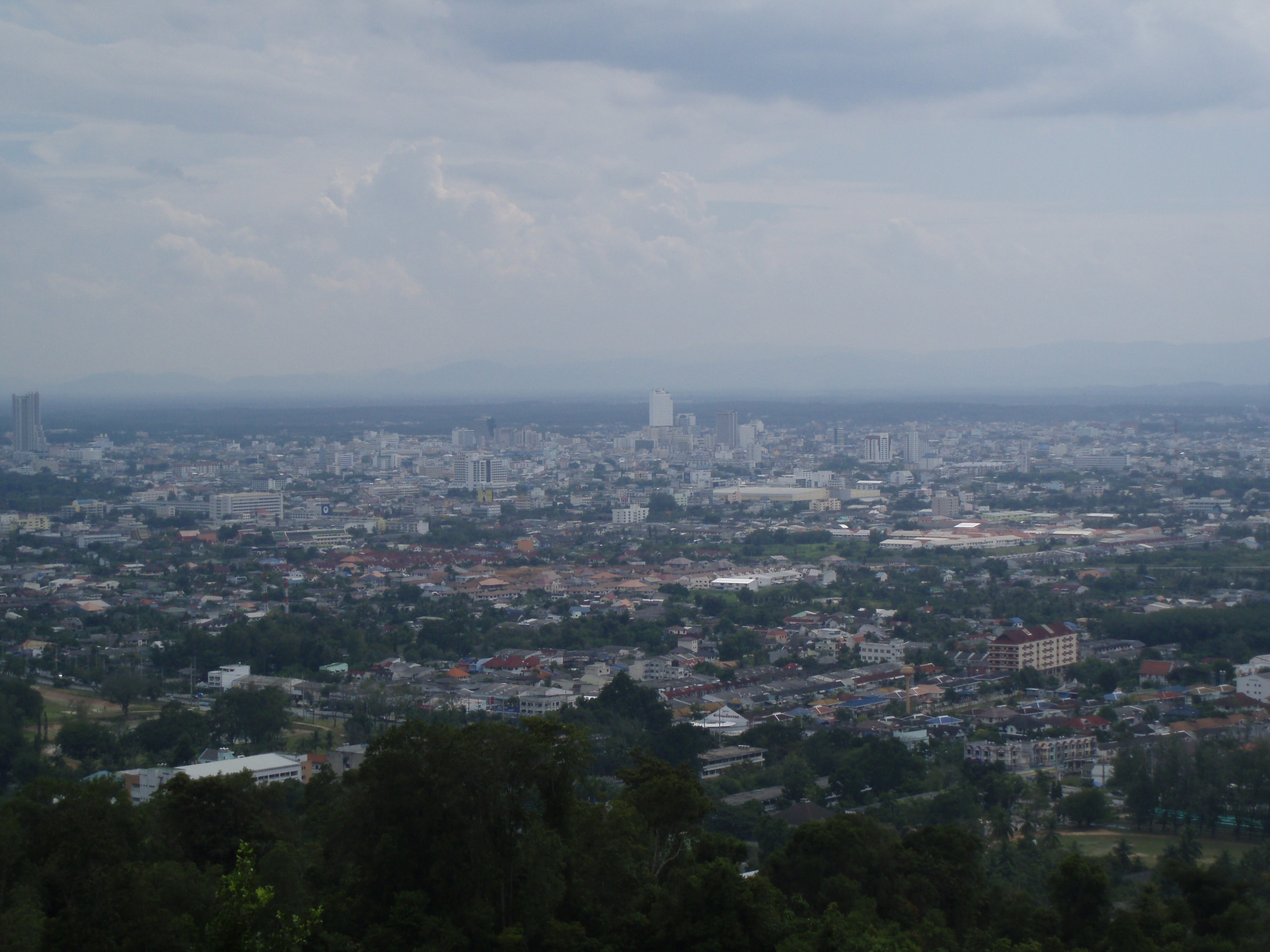 Hat Yai